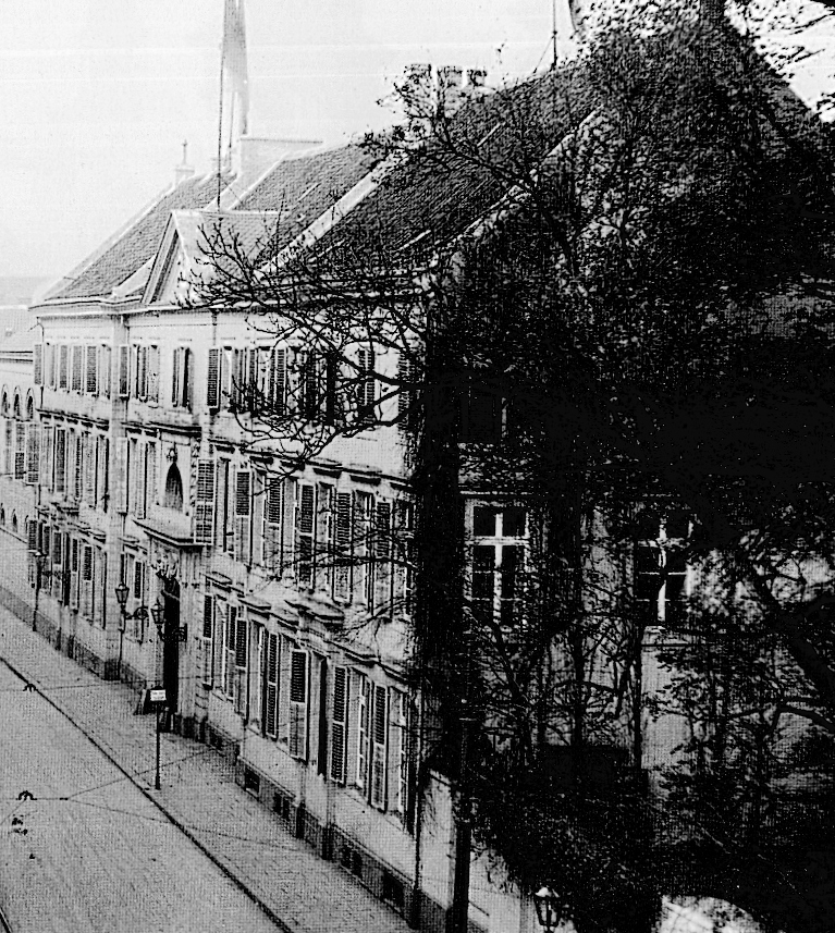 Statthalterpalais an der Mühlenstraße in Düsseldorf. Frühklassizistisches Palais erbaut 1766 von Hofbaumeister Ignatius Kees als Sitz des kurfürstlichen Statthalters.